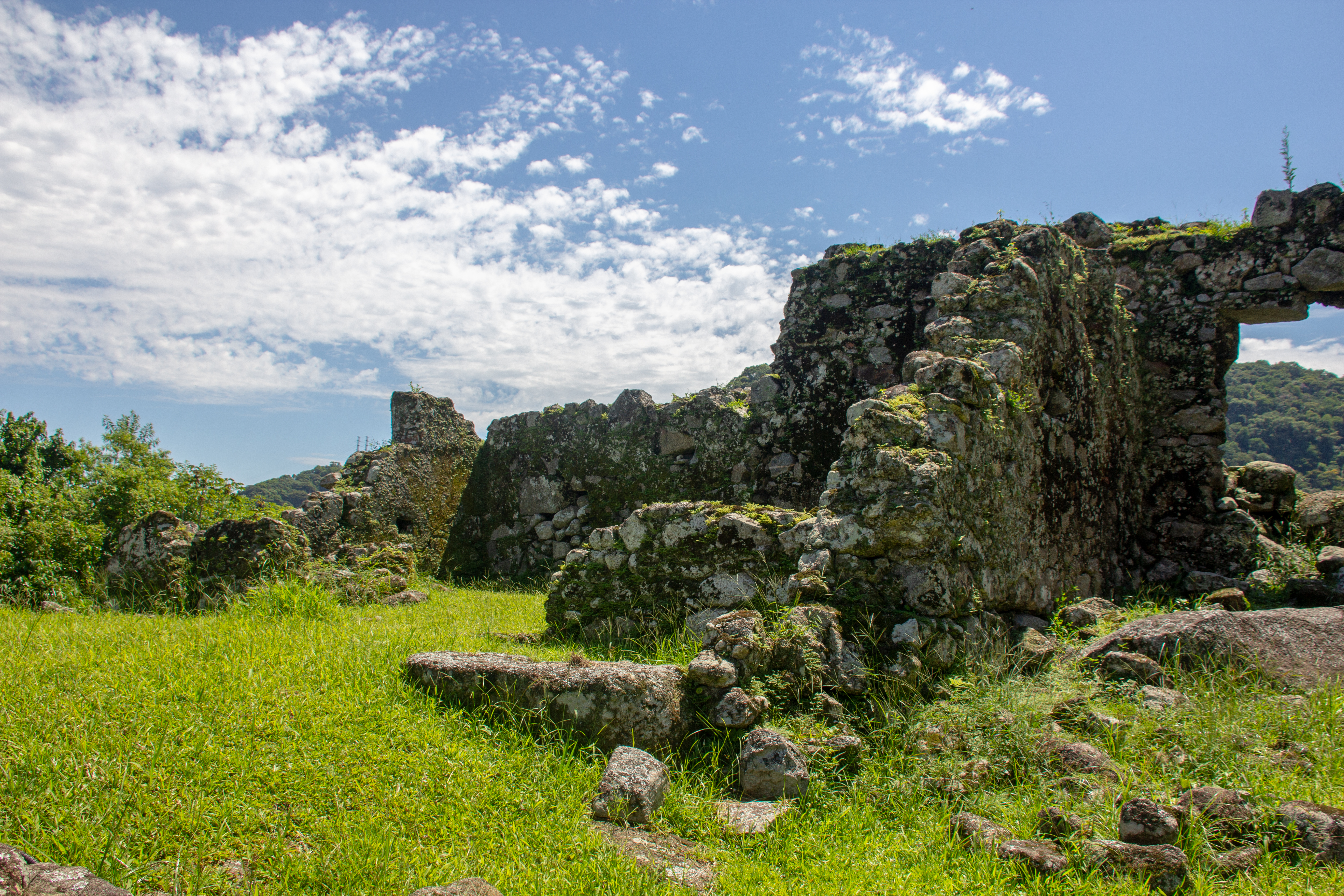 Engenho dos Erasmos